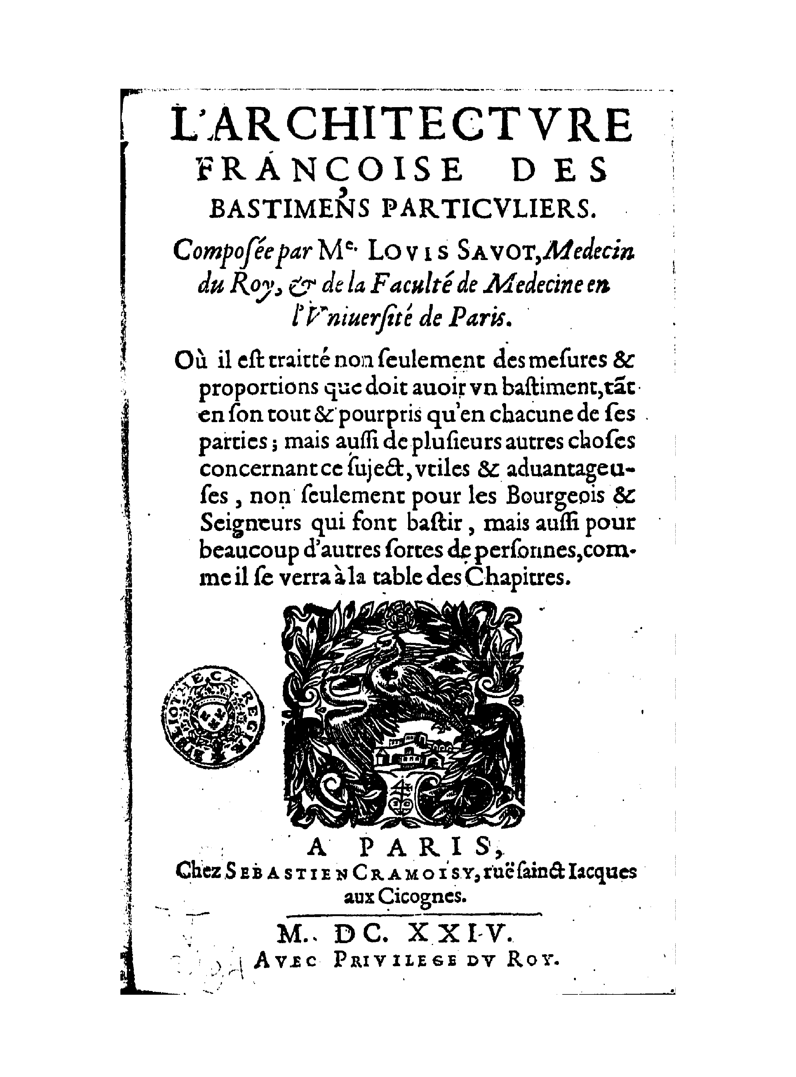 Title page of L'architecture française des bastimens particuliers by Louis Savot